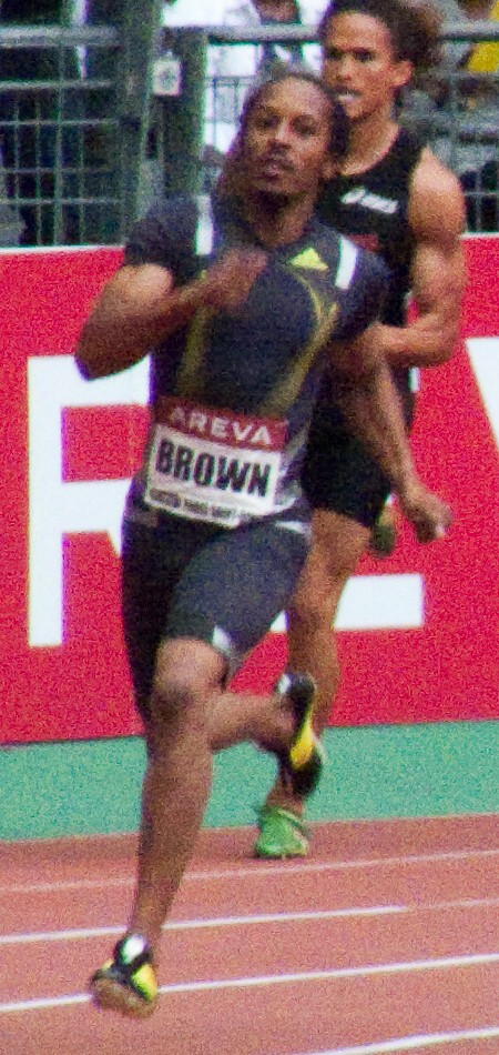 400 m du Meeting Areva 2009 à Saint-Denis. Christopher Brown (BAH).